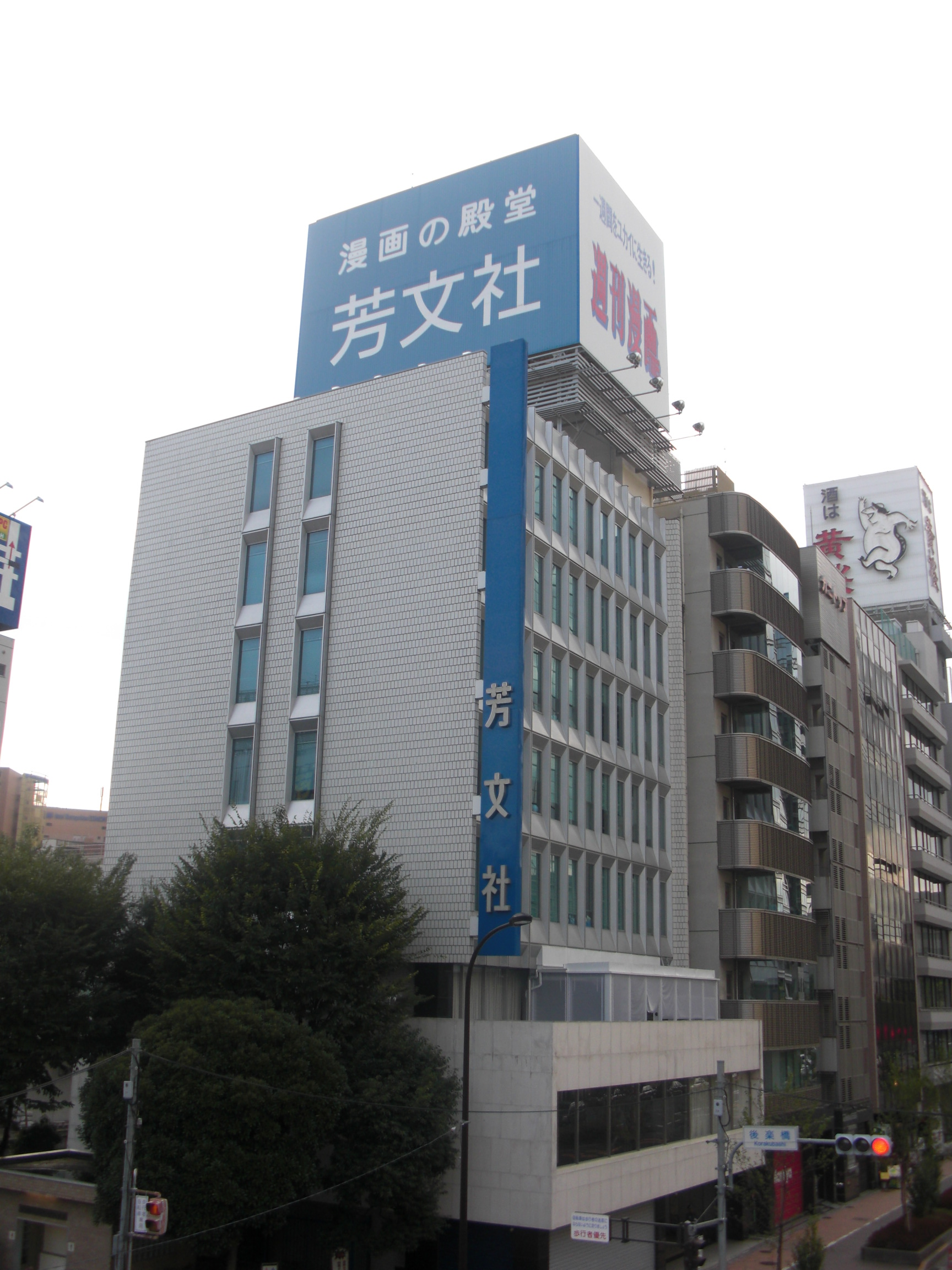 Head office of HOUBUNSHA CO., LTD.